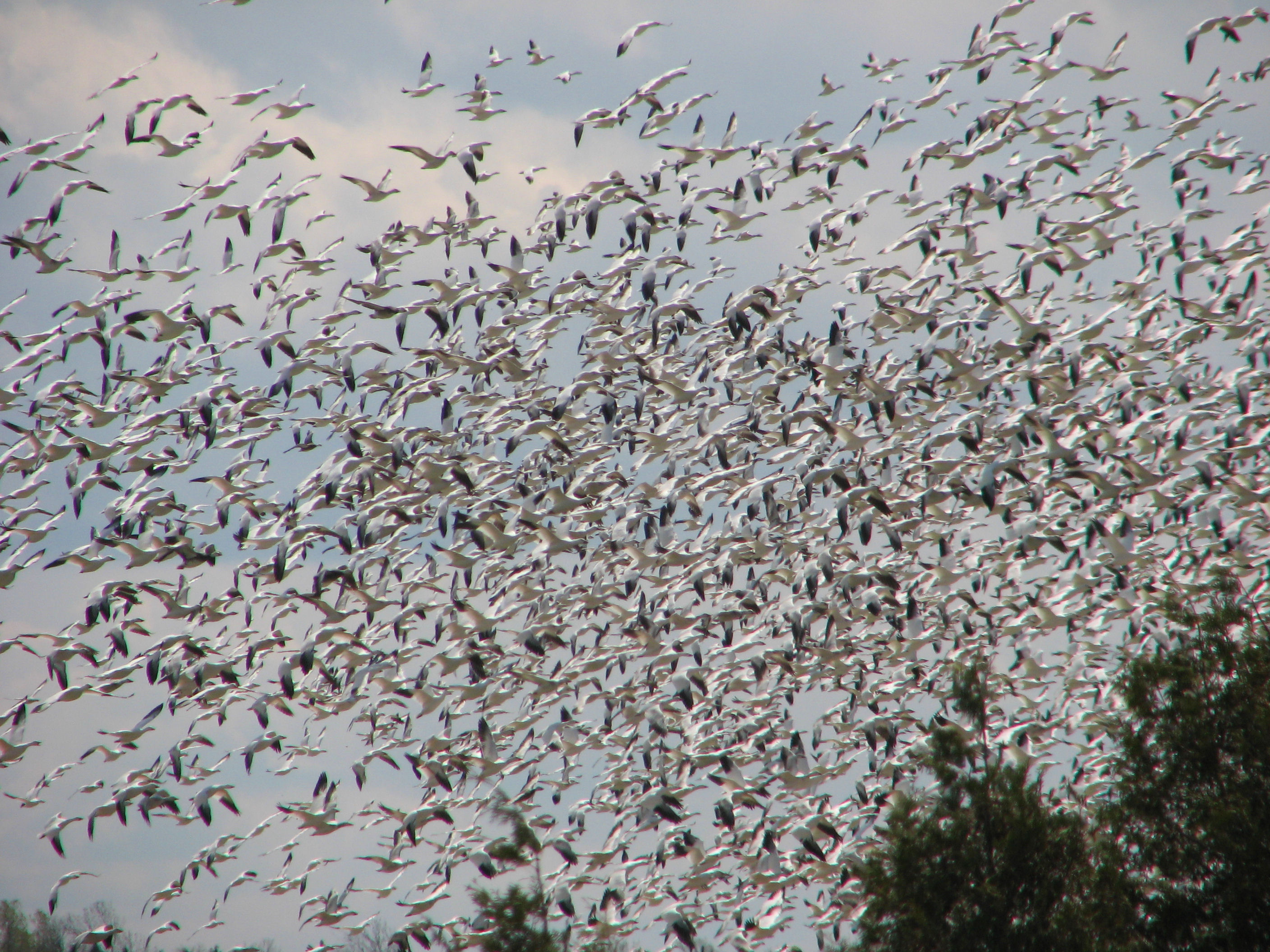 Greater Snow Geese (Anser caerulescens), in flight, Alexandria, Ontario